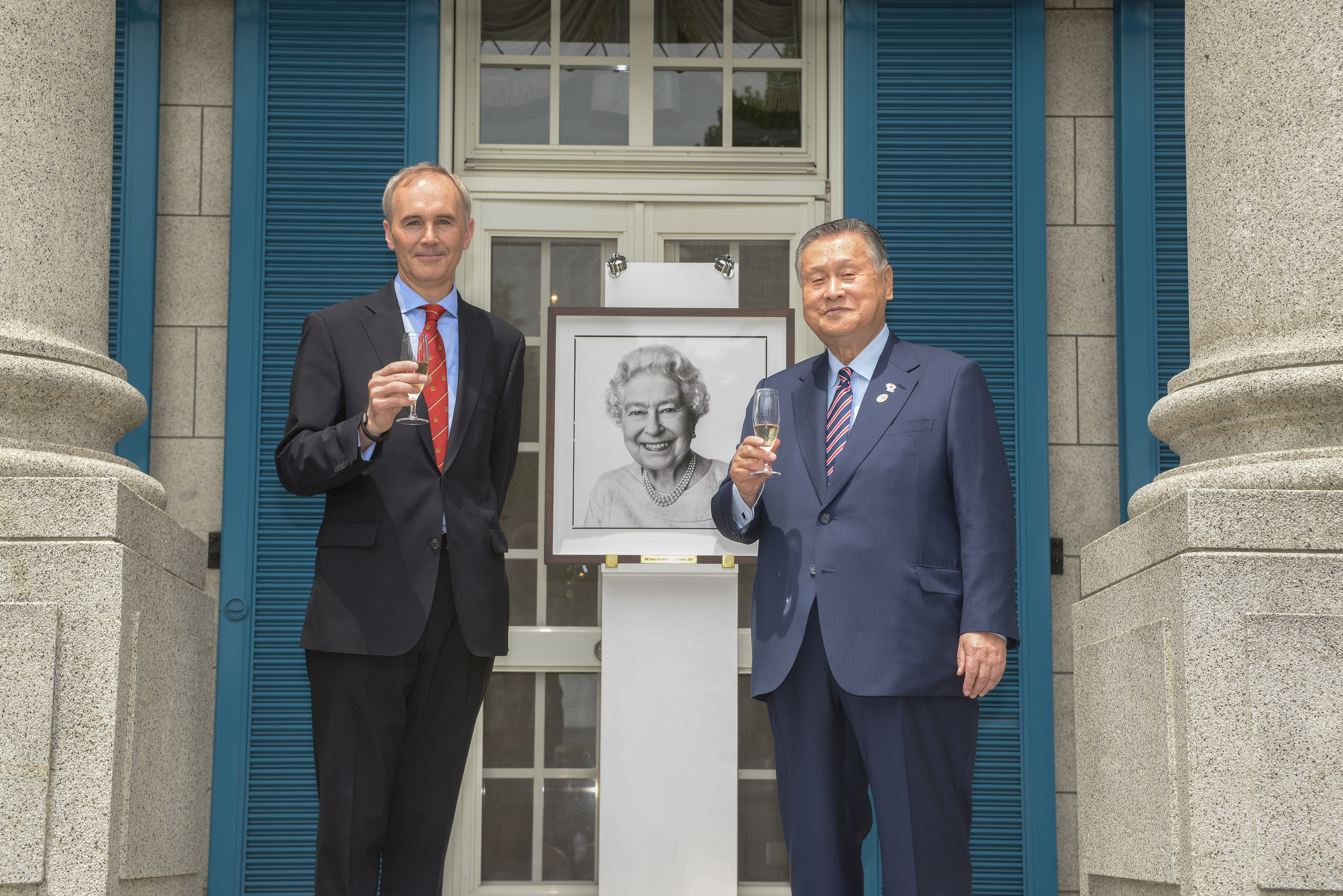 Yoshirō Mori, President of the Tokyo Organising Committee of the Olympic and Paralympic Games, met Tim Hitchens, Ambassador to Japan, at the British Embassy in Tokyo on June 23, 2015.